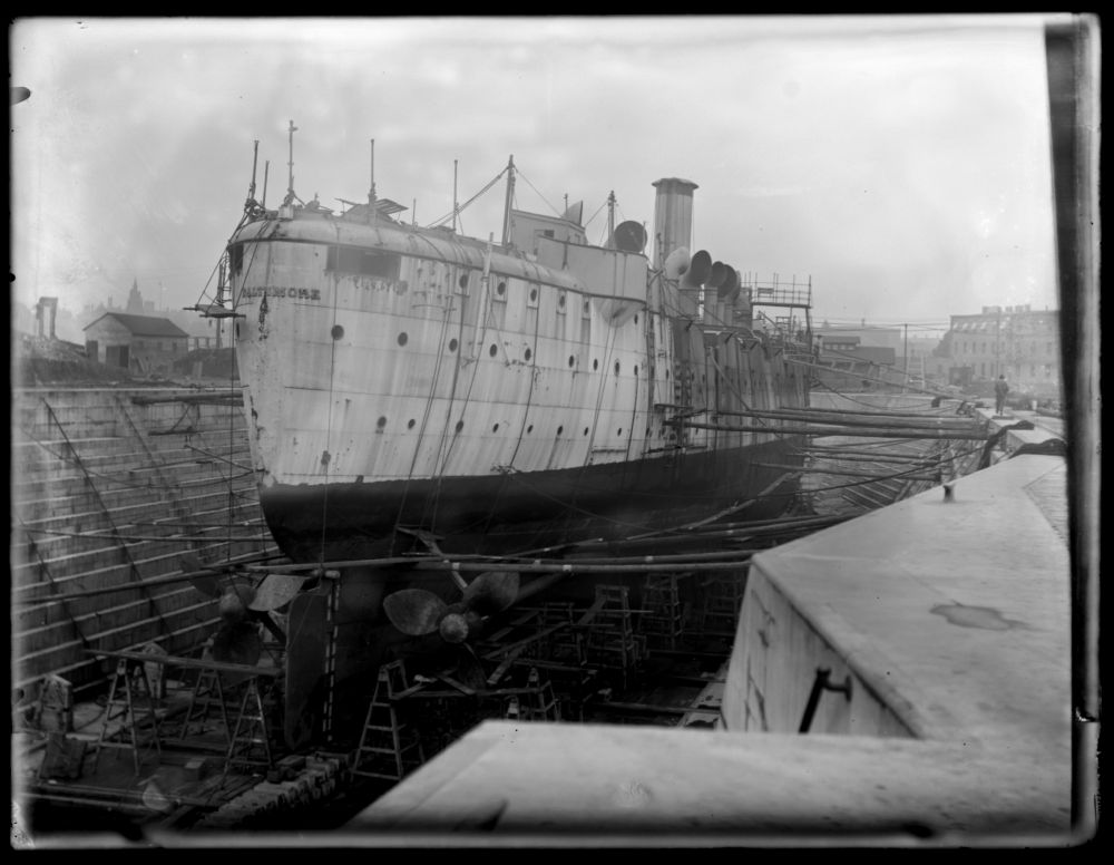 Accession Number: 1974:0056:0791 Maker: William M. Vander Weyde (American 1871–1929) Title: USS Balitimore Date: ca. 1900 Medium: negative, gelatin on glass Dimensions: 6.5 x 8.5 inches George Eastman House Collection General – information about the George Eastman House Photography Collection is available at For information on obtaining reproductions go to